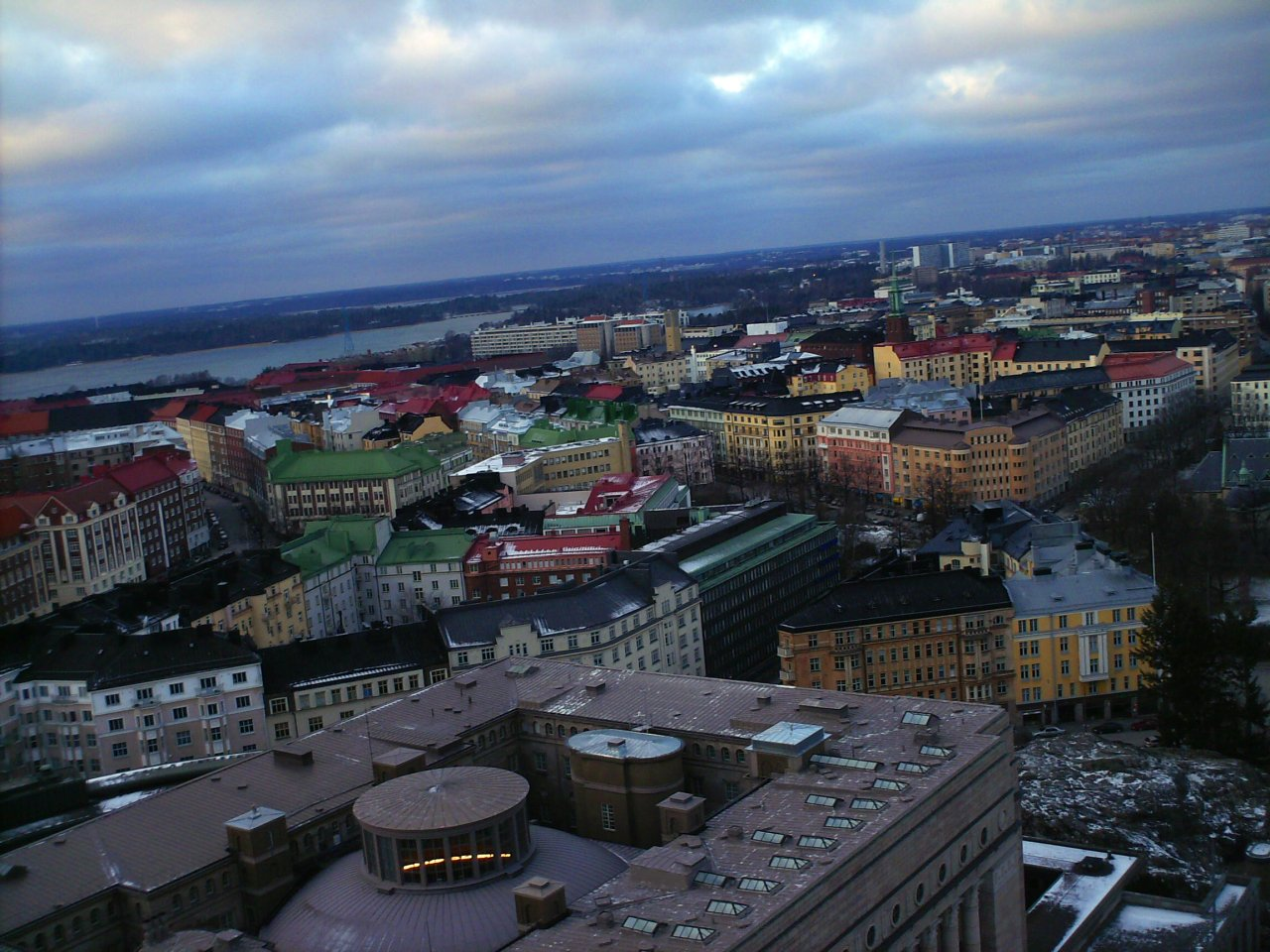 Eduskuntatalo in Helsinki from air